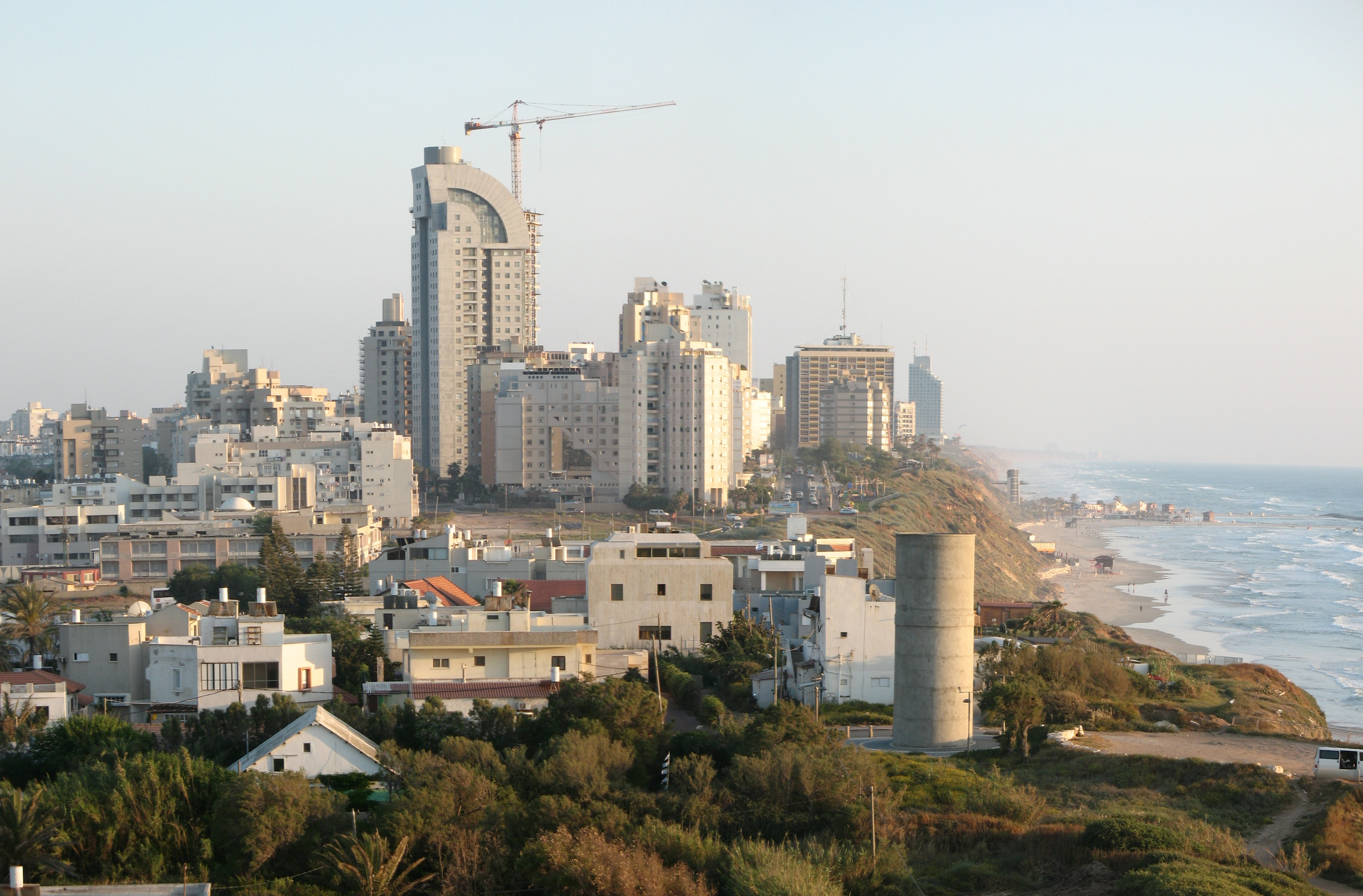 Netanya skyline. Composed image from two detailed below